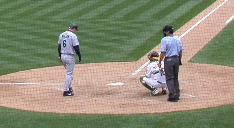 Dan Wilson in what would be his last season in baseball.